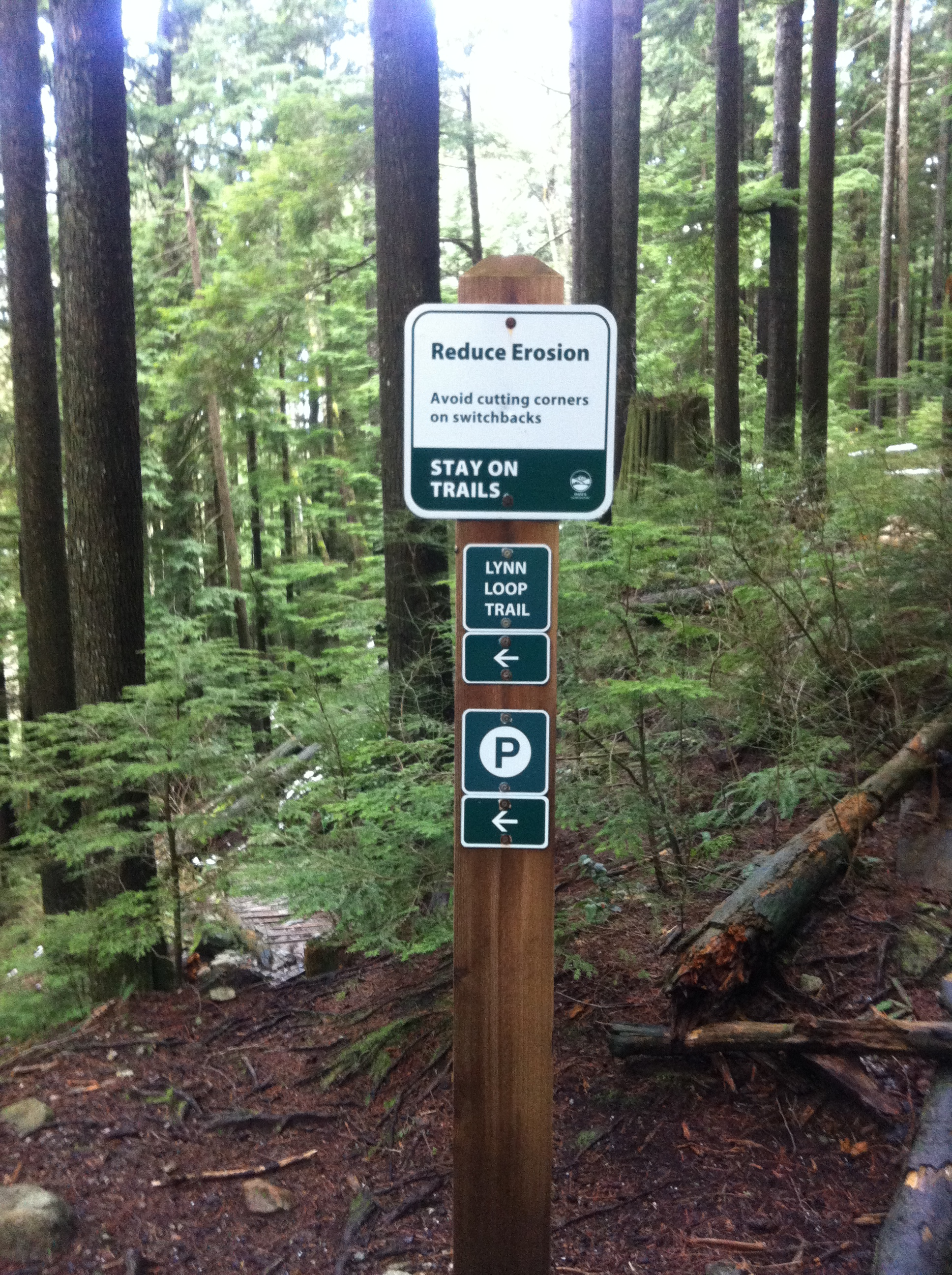 lynn valley sign about erosion